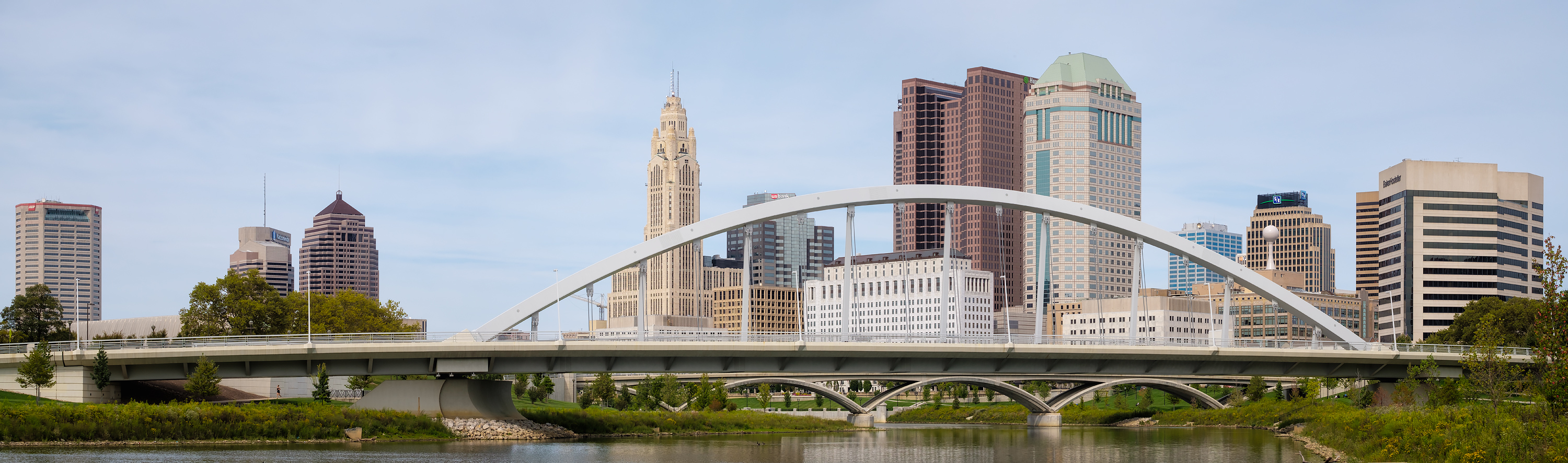 Columbus Ohio Skyline with the Main Street Bridge in the foreground.